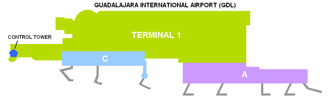 Guadalajara International Airport terminal 1.